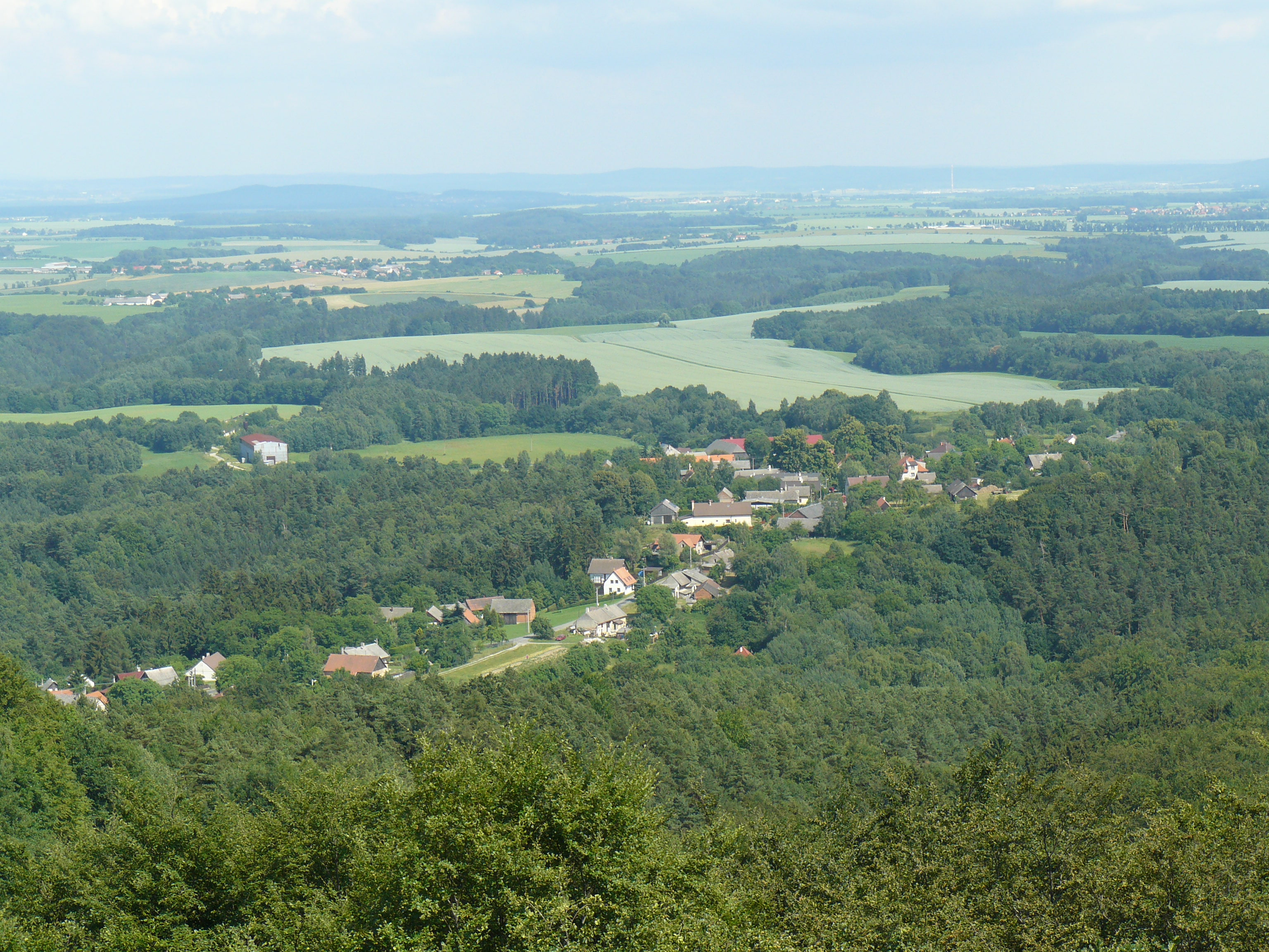 Nosalov - Village in Czech Republic (aerial view)